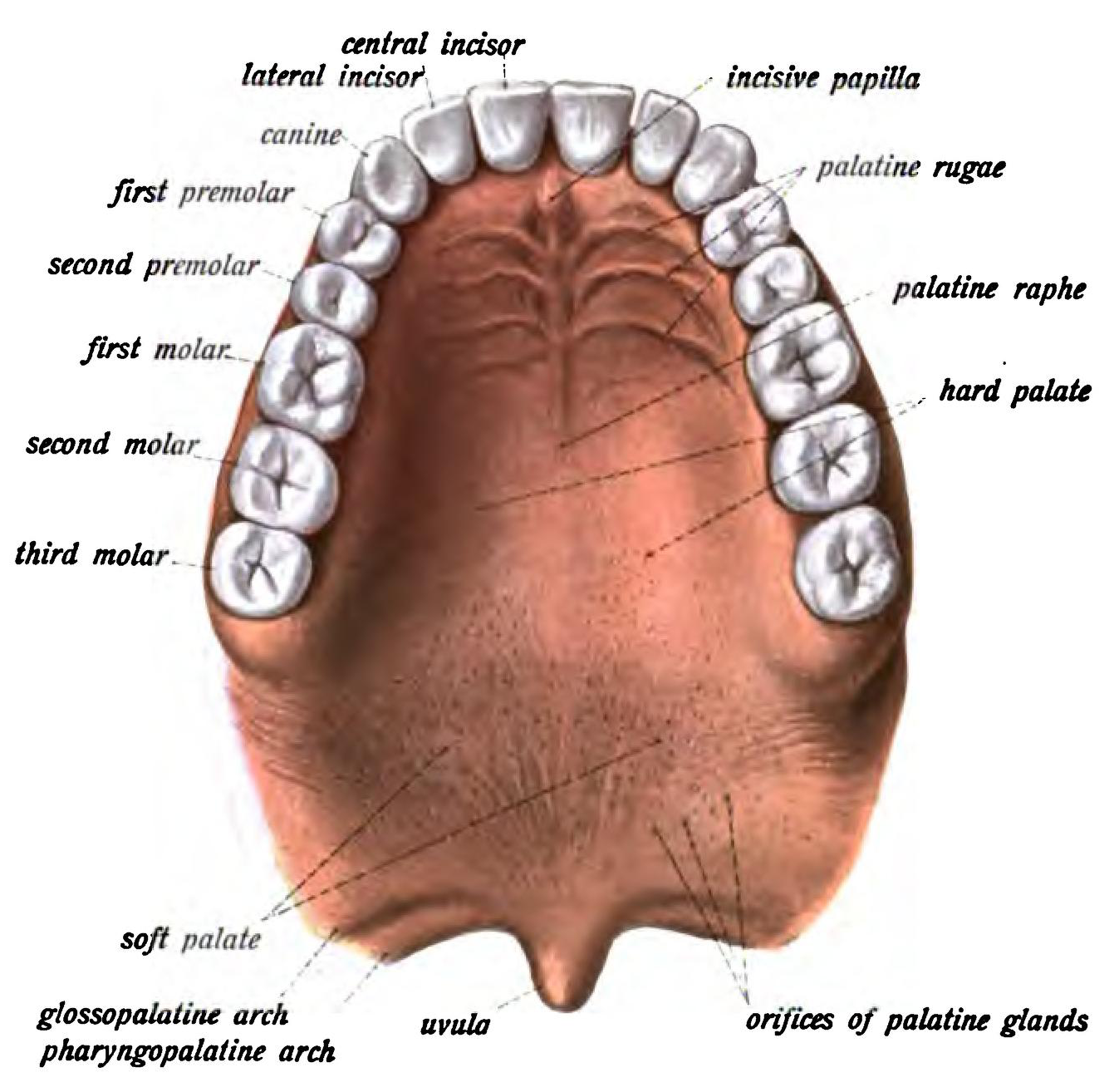 An anatomical illustration from the 1906 edition of Sobotta's Atlas and Text-book of Human Anatomy with English terminology.